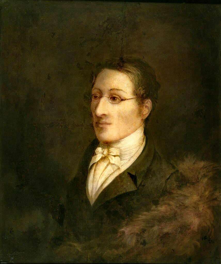 The portrait of German composer Carl Maria Friedrich Ernst von Weber (1786-1826) which is claimed to be the last in his life